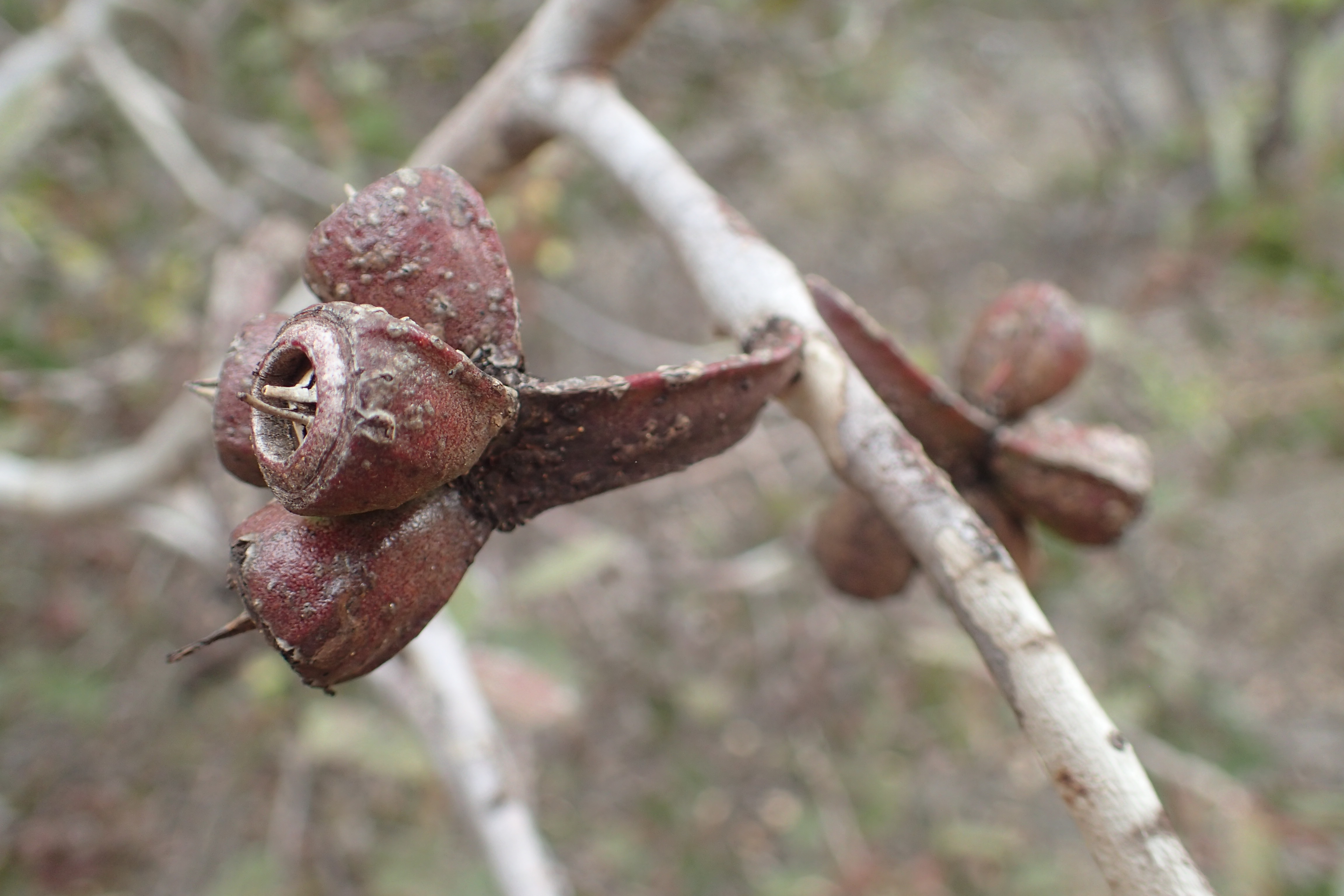 Fruit of Eucalyptus platypus in Helms Arboretum near Esperance, W.A.